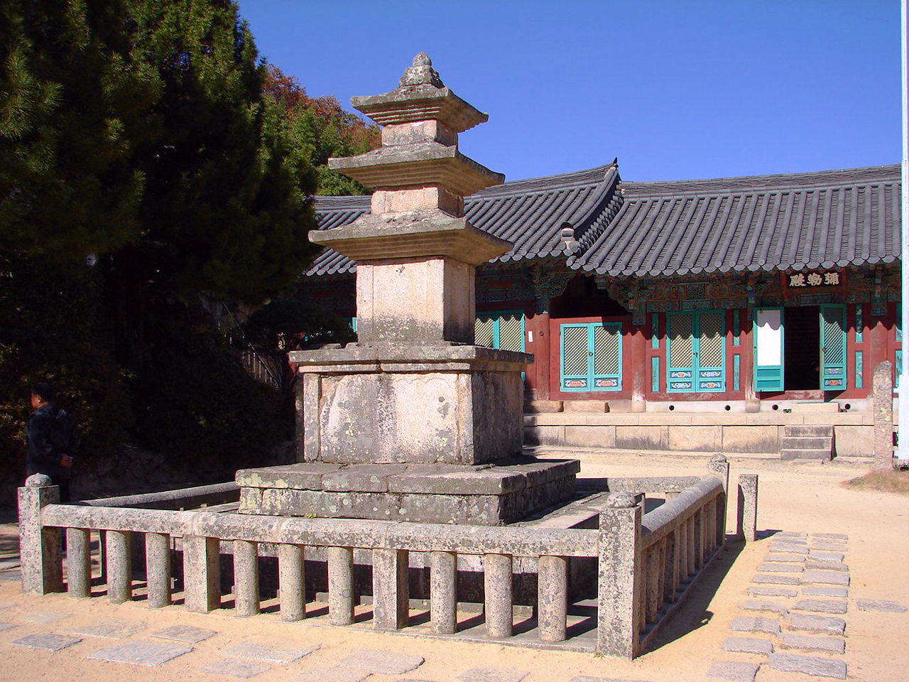 Beomeos'a Three Storied Pagoda was built some time between 826-836 during the Silla era but the base, a two tiered stone foundation deorated with an eye-shaped design, and fence are believed to have been added later. 250. Beomeosa Three Story Stone Pagoda built some time between 826-836 during the Silla era.